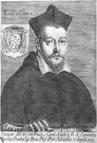 Contemporary engraving of Cardinal Pietro Aldobrandini (31 March 1571 – 10 February 1621)